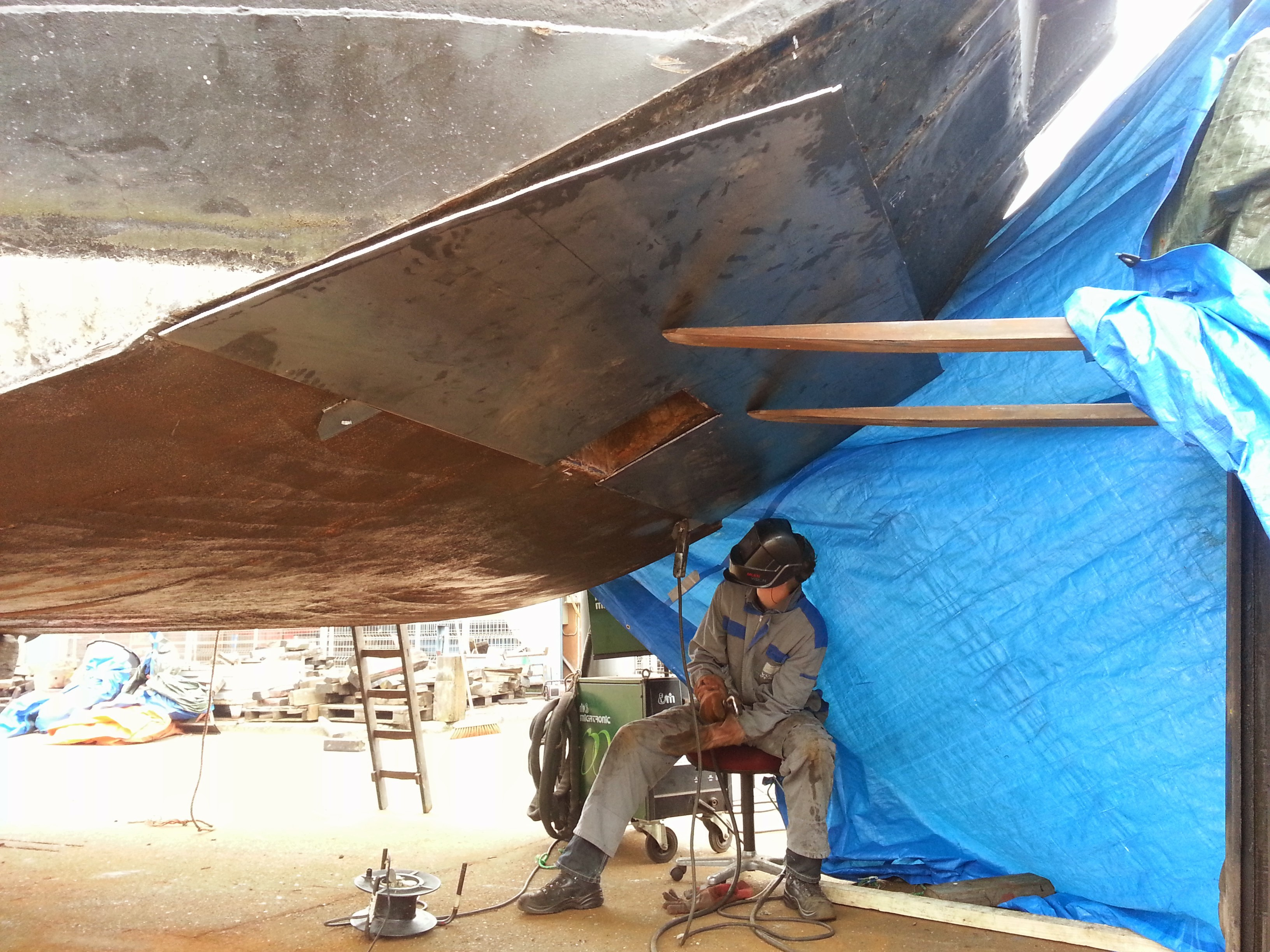 A sheet of 5mm steel is welded to a 1930 barge